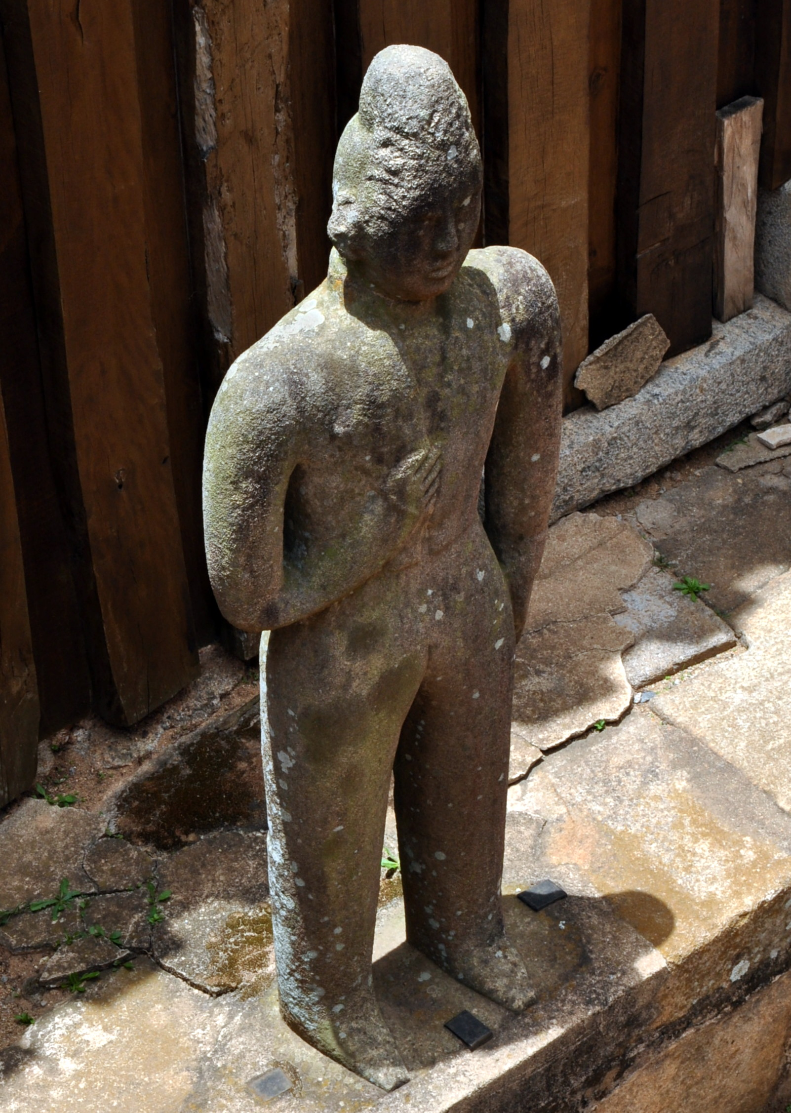 Kidoka, a statue that King Andrianampoinimerina had placed to guard his wife's house to prevent her infidelities while he was away, Rova of Antananarivo, Madagascar